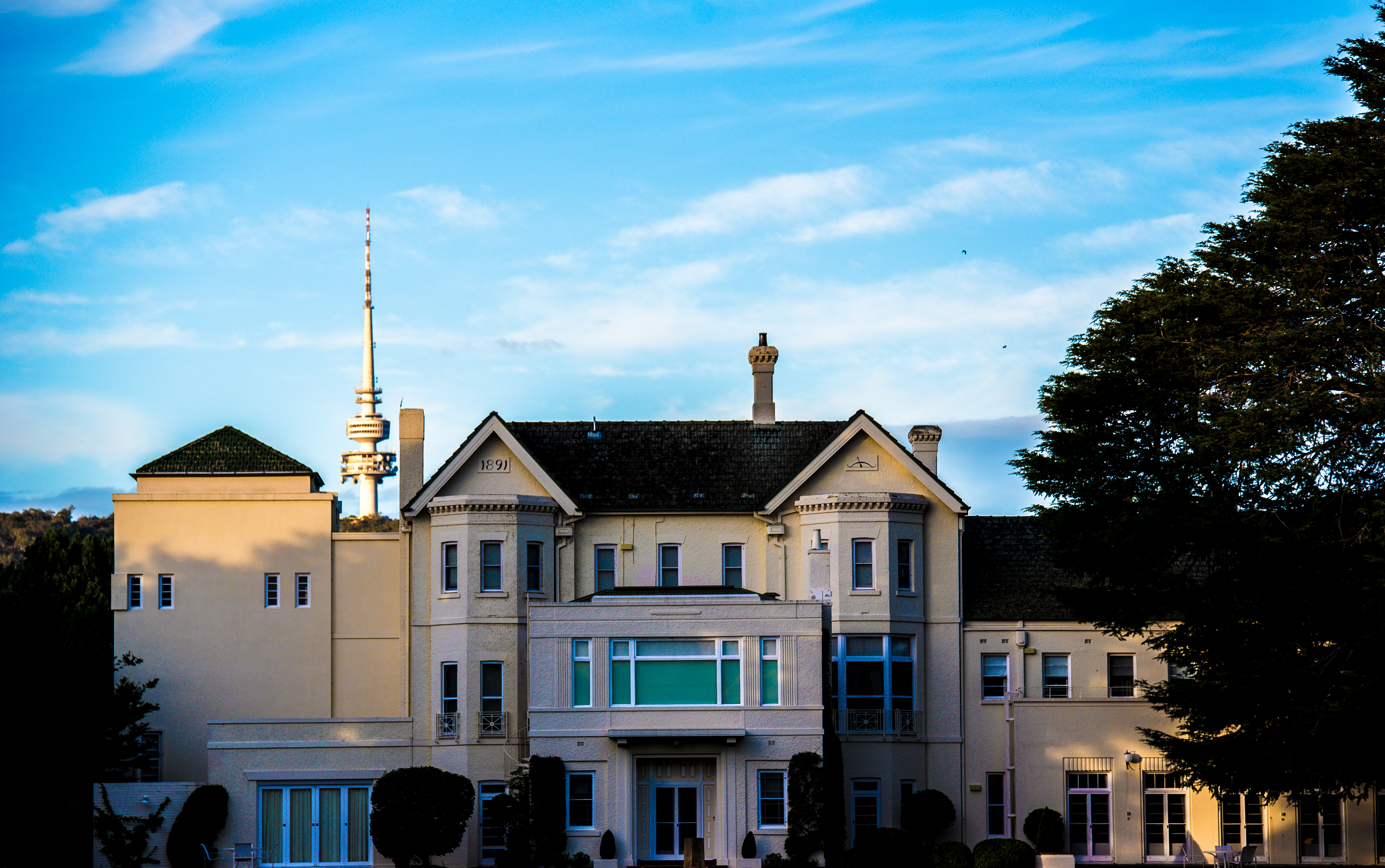 Canberra's Government House